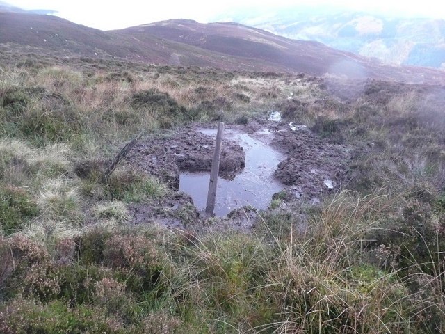 Deer wallow The deer wallow in this mucky hole trying to escape biting insects and ticks. It had obviously been used recently.